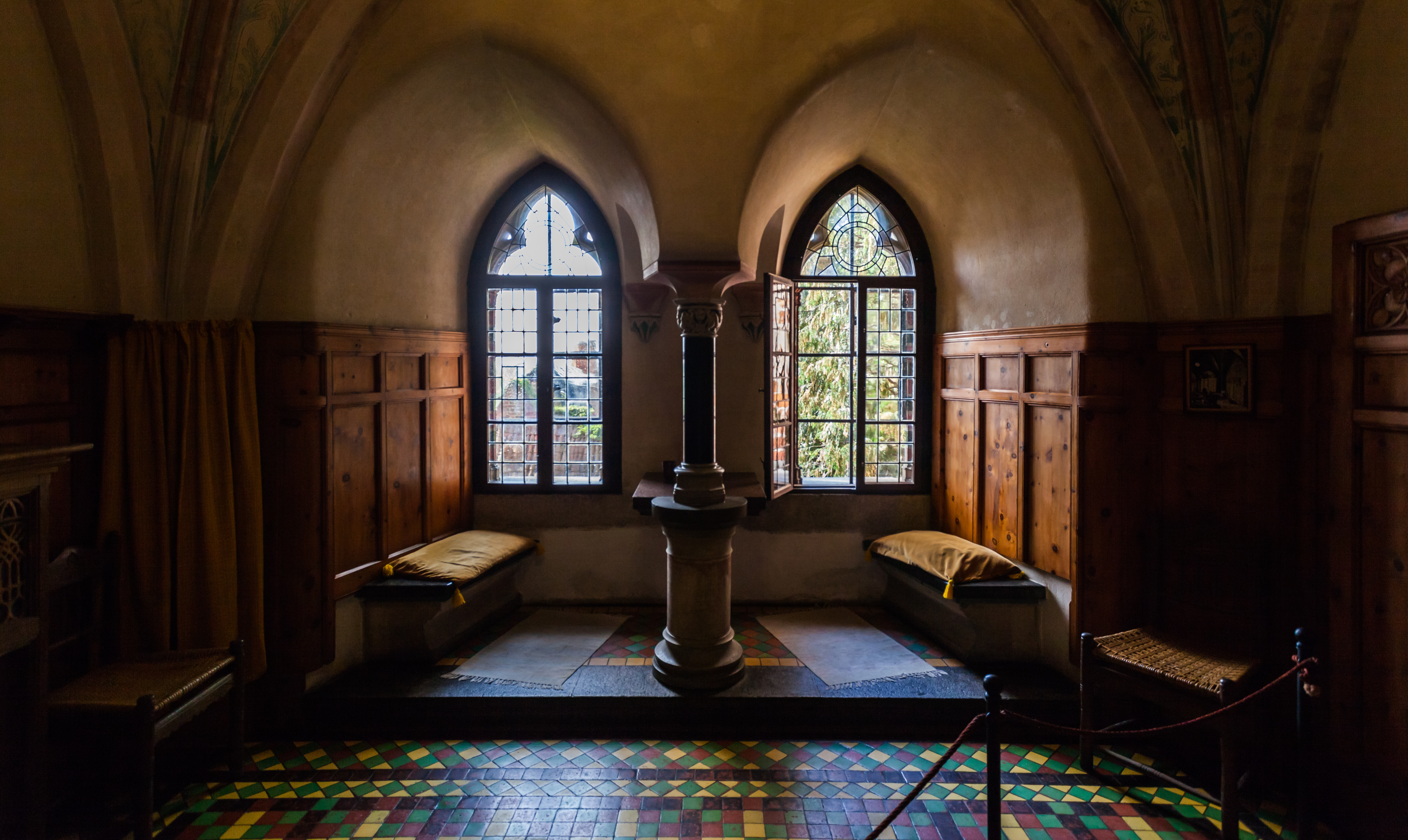 Malbork Castle, Poland